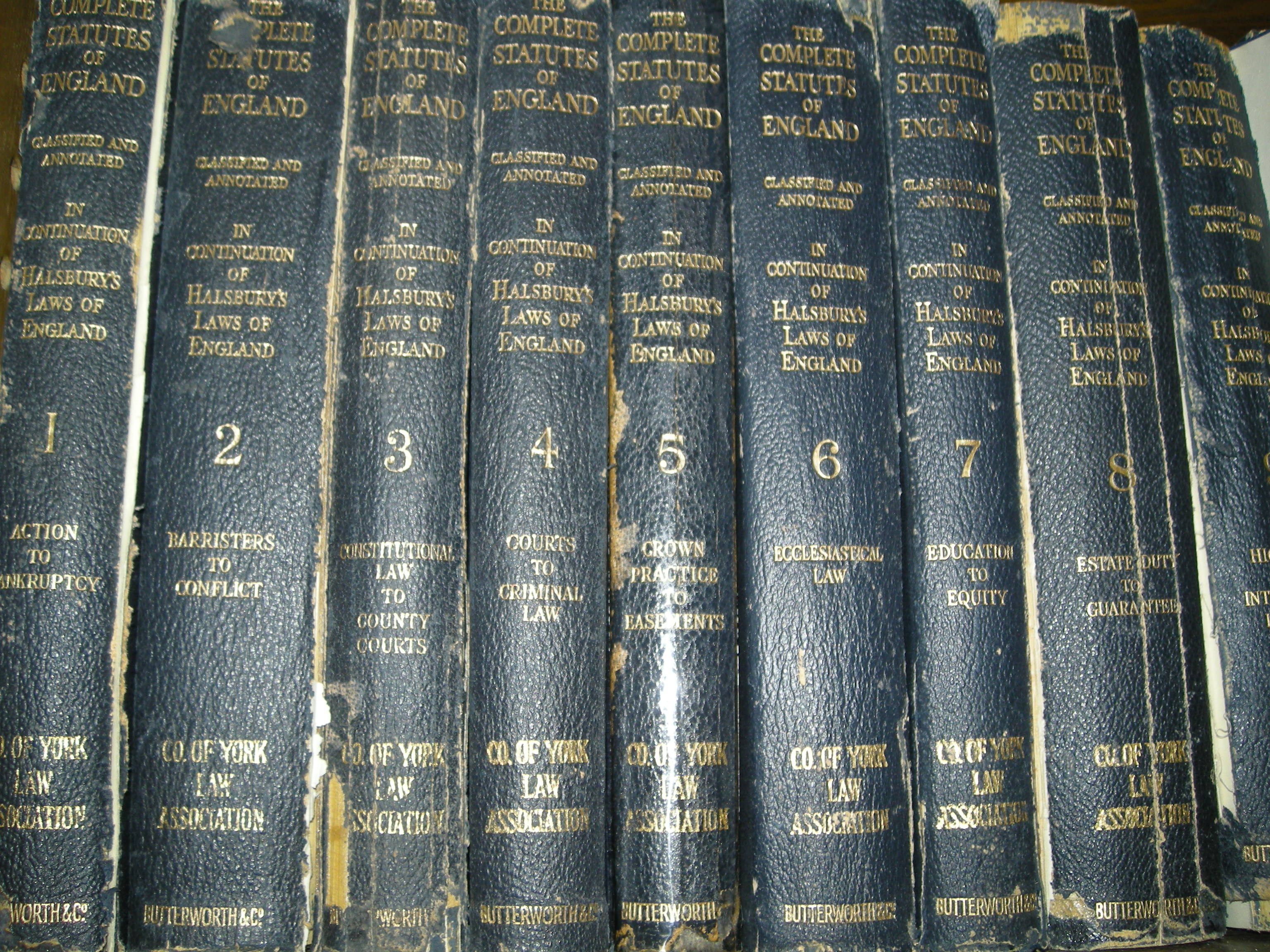 Volumes of the Statutes of England (Halsbury's Laws of England) in the Great Library, the law library of the Law Society of Upper Canada and the Court of Appeal of Ontario, at Osgoode Hall, Toronto, Ontario, Canada.